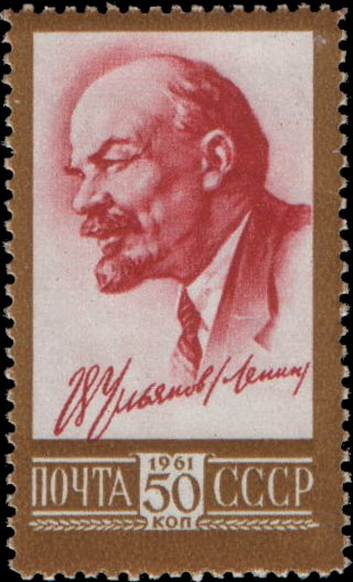 Stamp of the Soviet Union, 1961, CPA 2575.